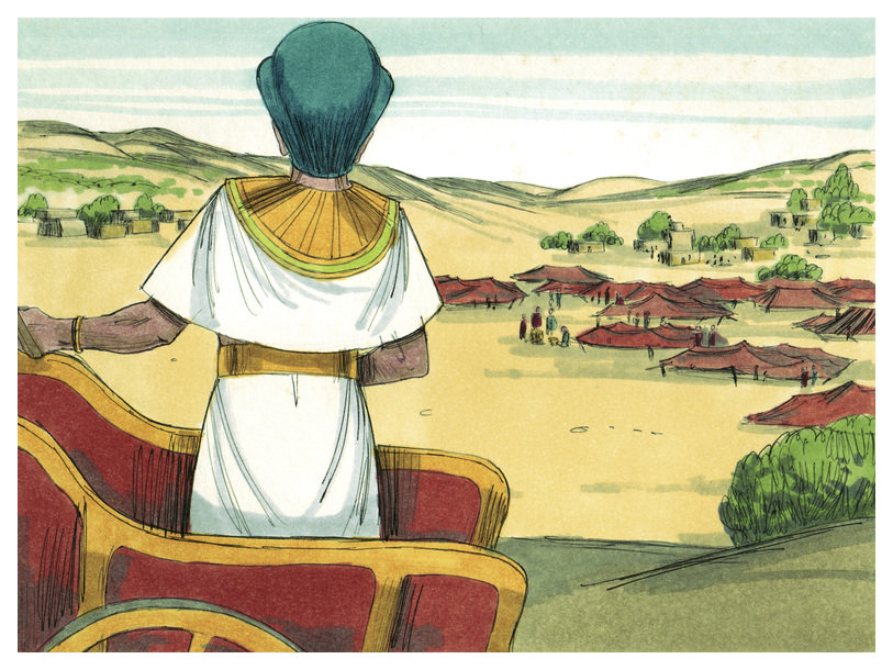 Biblical illustration of Book of Exodus Chapter 2